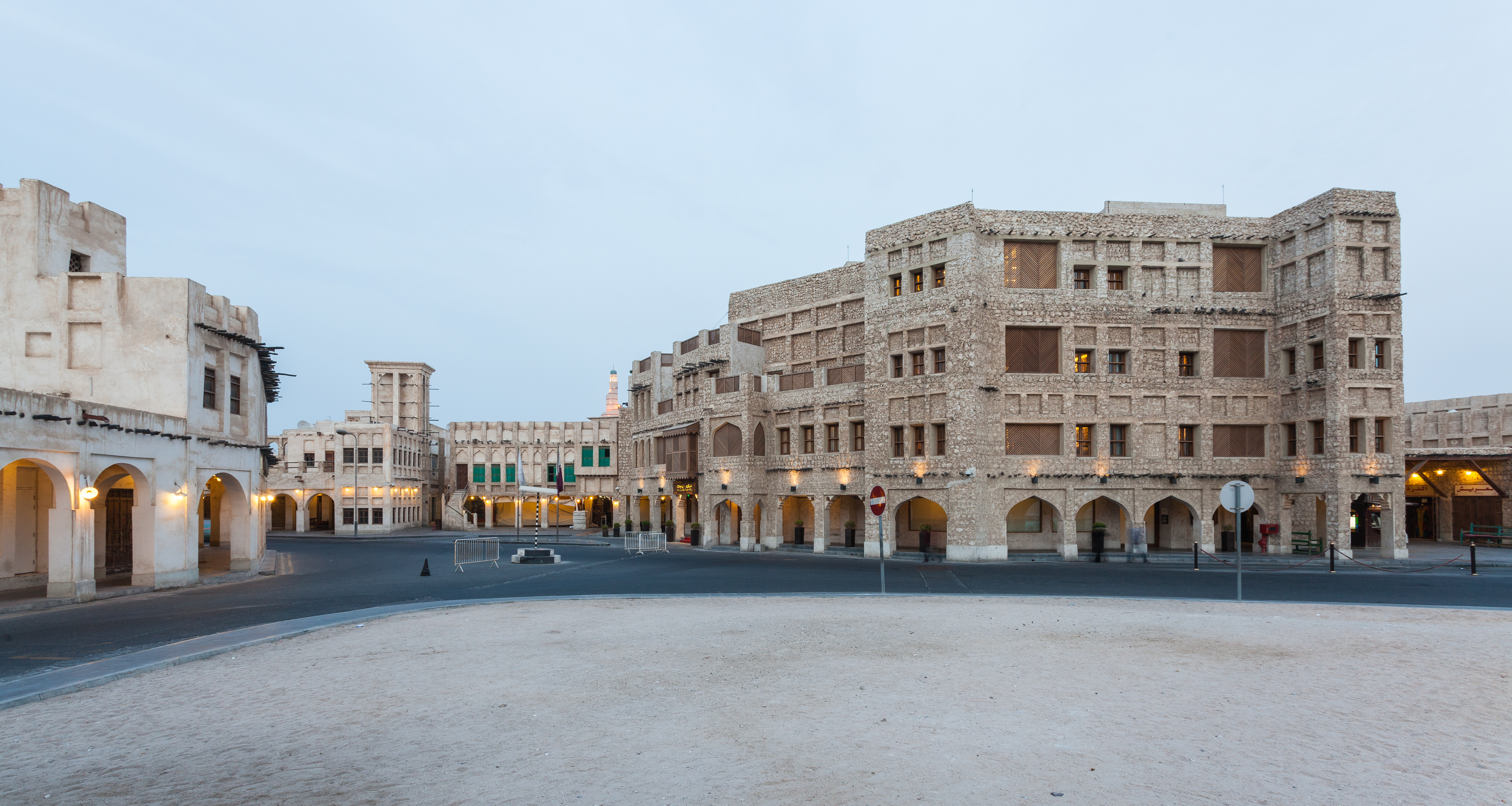 Souq Waqif, Doha, Qatar